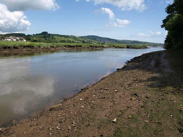 River Teign Taken from the Templar Way, as it runs along the slippery foreshore of the tidal Newton Channel of the river at the head of its estuary. The mid-distance route is here following Newton Abbot Footpath 32. Across Hackney Marshes is the Passage House Inn.